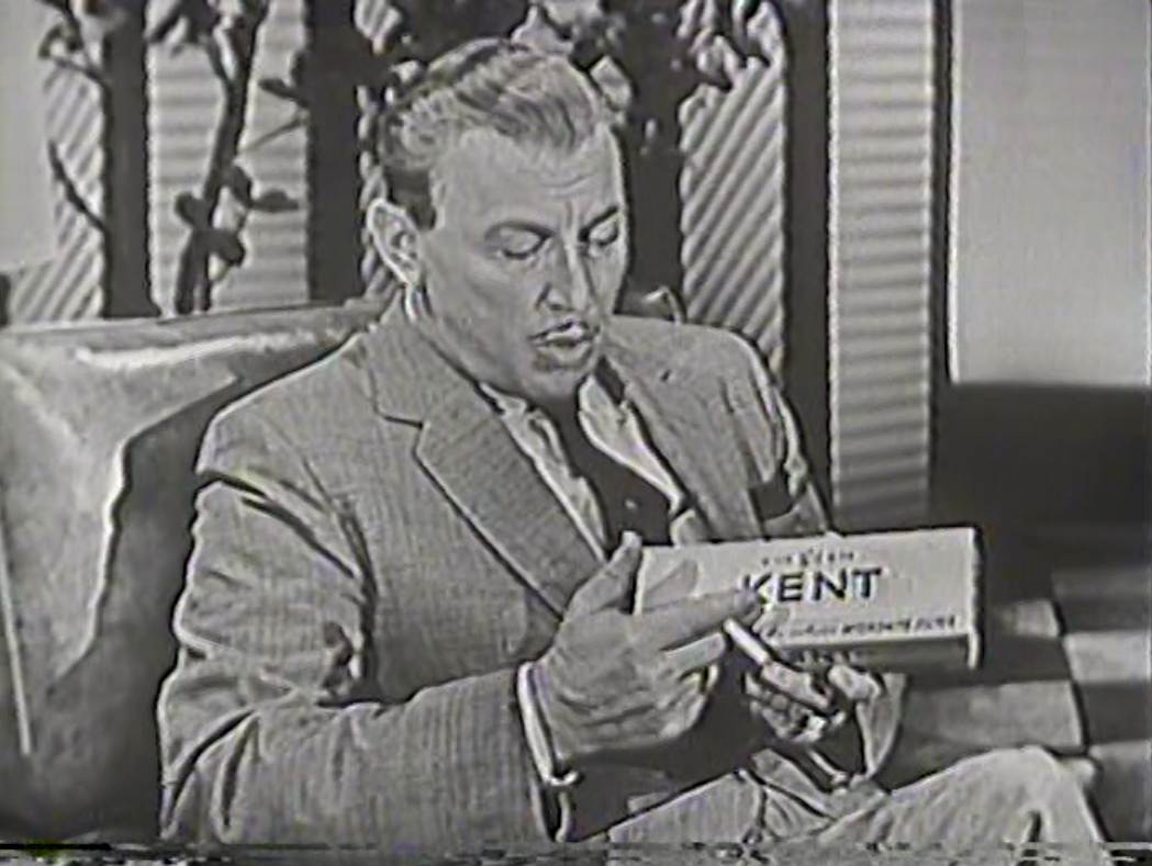 A screenshot from a 1950s commercial for Kent cigarettes.